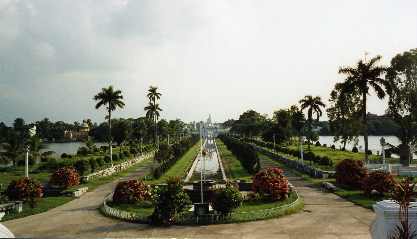 Photo: Soman